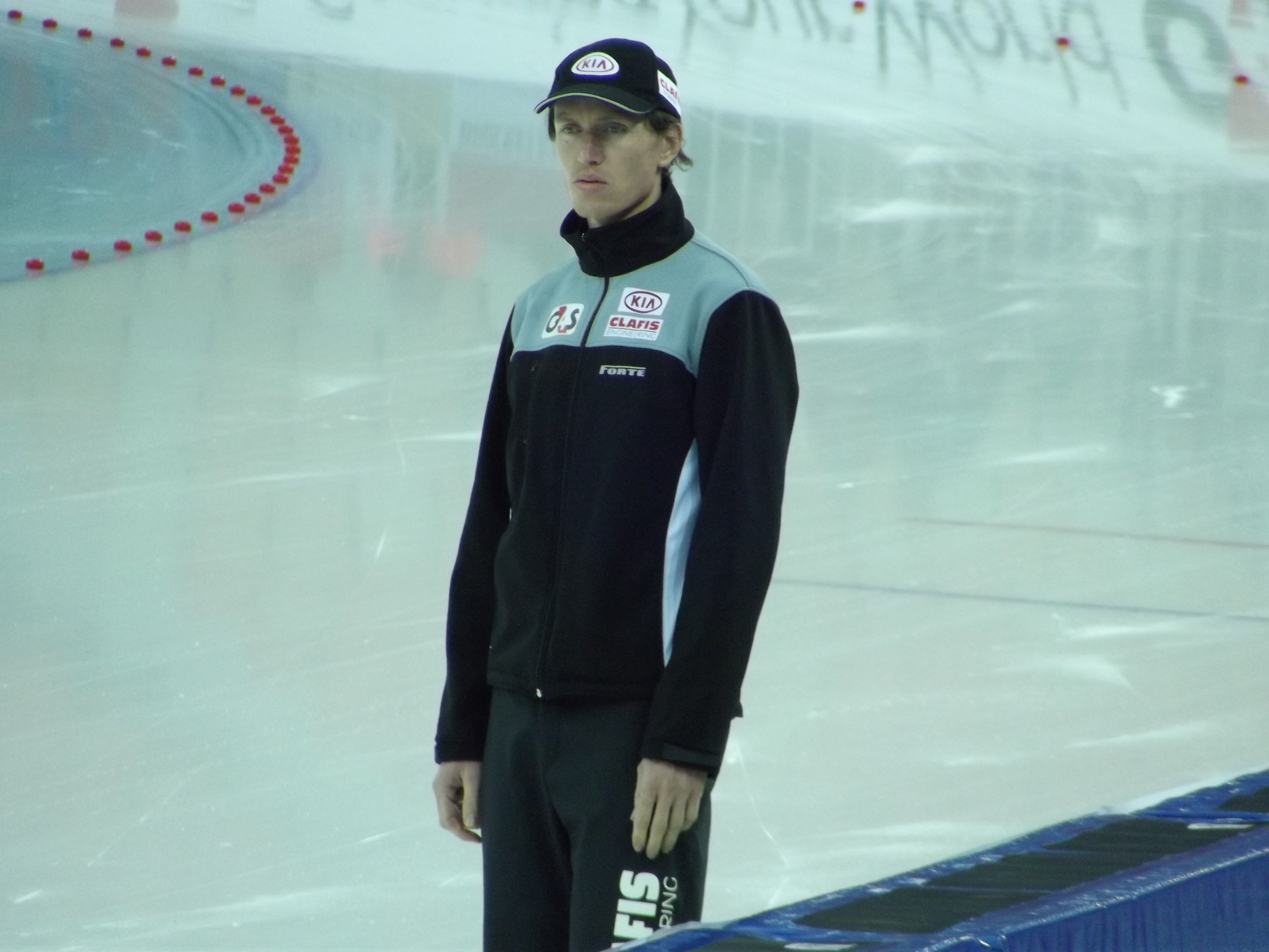 2013 World Single Distance Speed Skating Championships